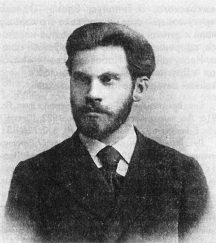 Vladimir Gippius